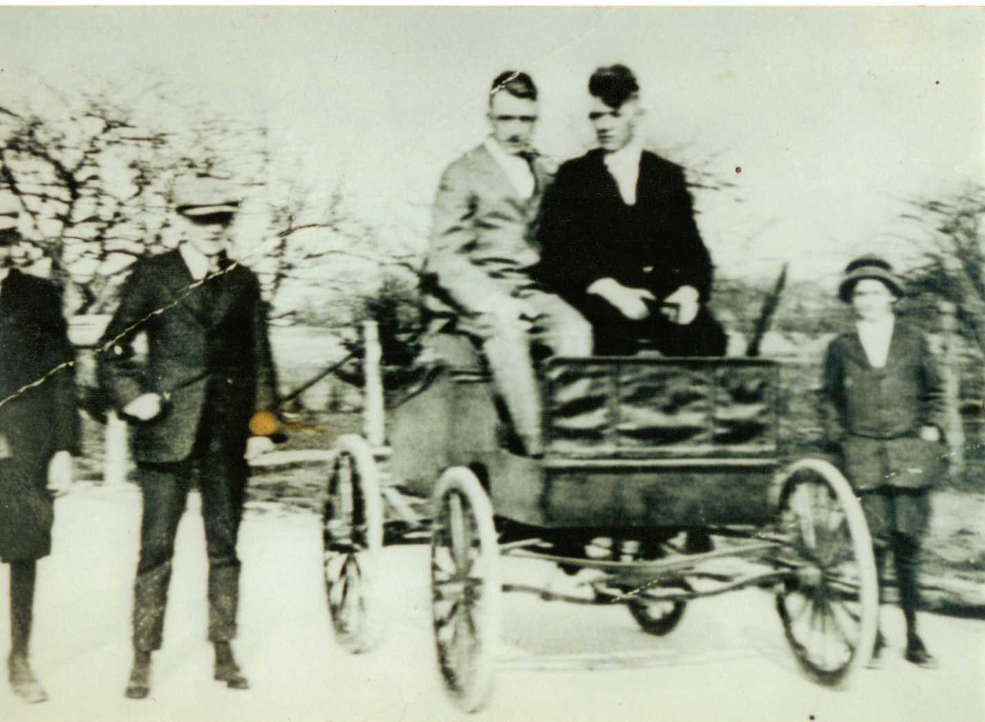 Gottfried Schloemer car in 1918